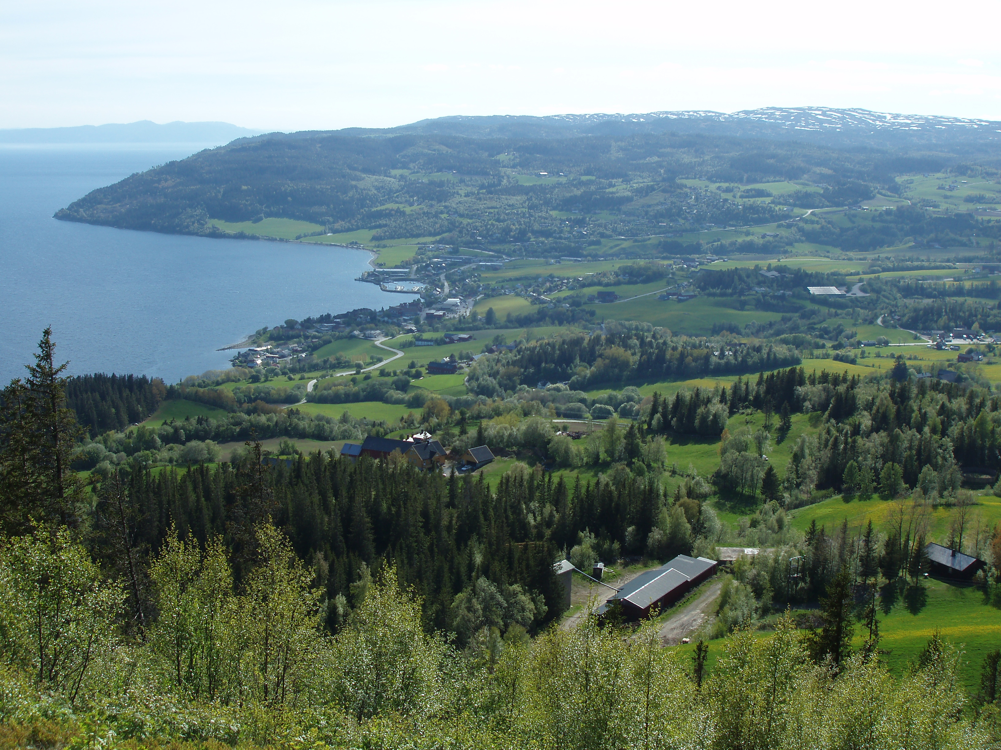 The Leksvik village in Leksvik municipality in Nord-Trøndelag county in Norway, seen from the hill Våttåhaugen, northeast of the village.